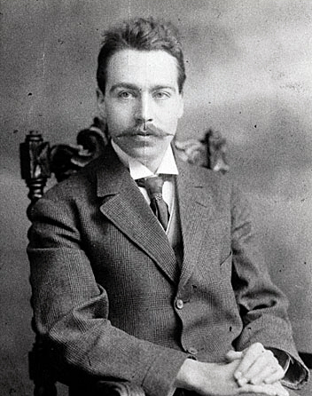 Walter Pach, circa 1909, from the Walter Pach papers, Archives of American Art, Smithsonian Institution.